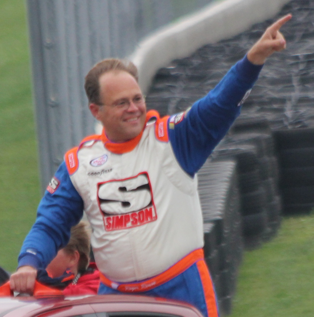 NASCAR driver Roger Reuse waves to the crowd during drivers introduction at the Xfinity Series race at Road America.